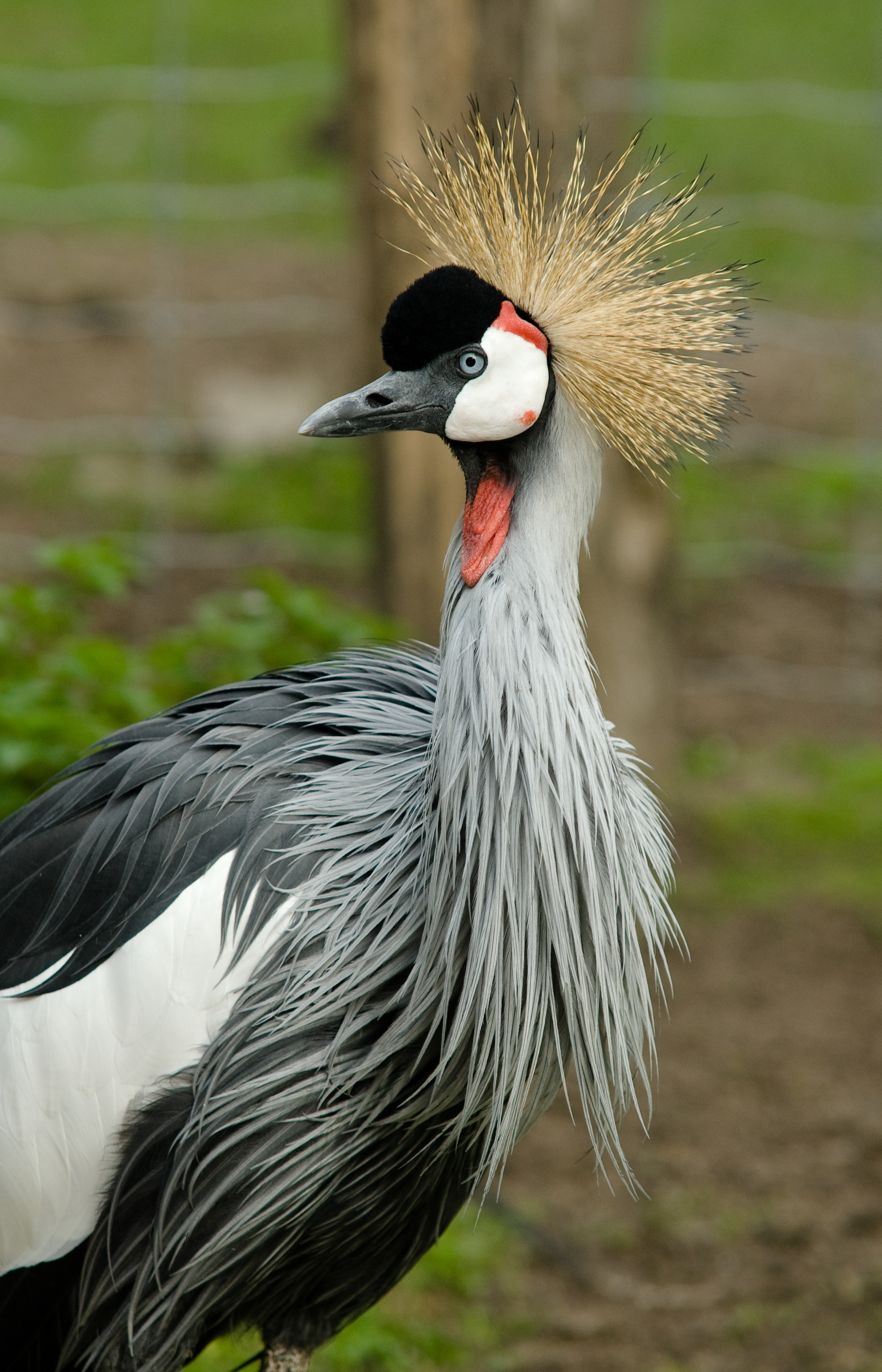 Grey Crowned Crane Balearica regulorum at Copenhagen Zoo.